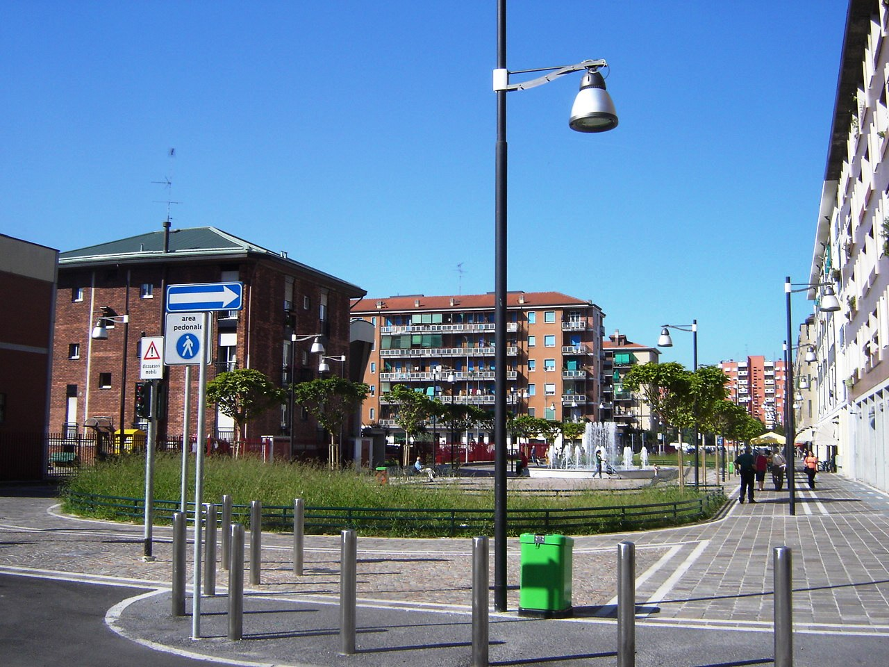 Pedestrian area in Via Federico De Roberto, Quarto Oggiaro